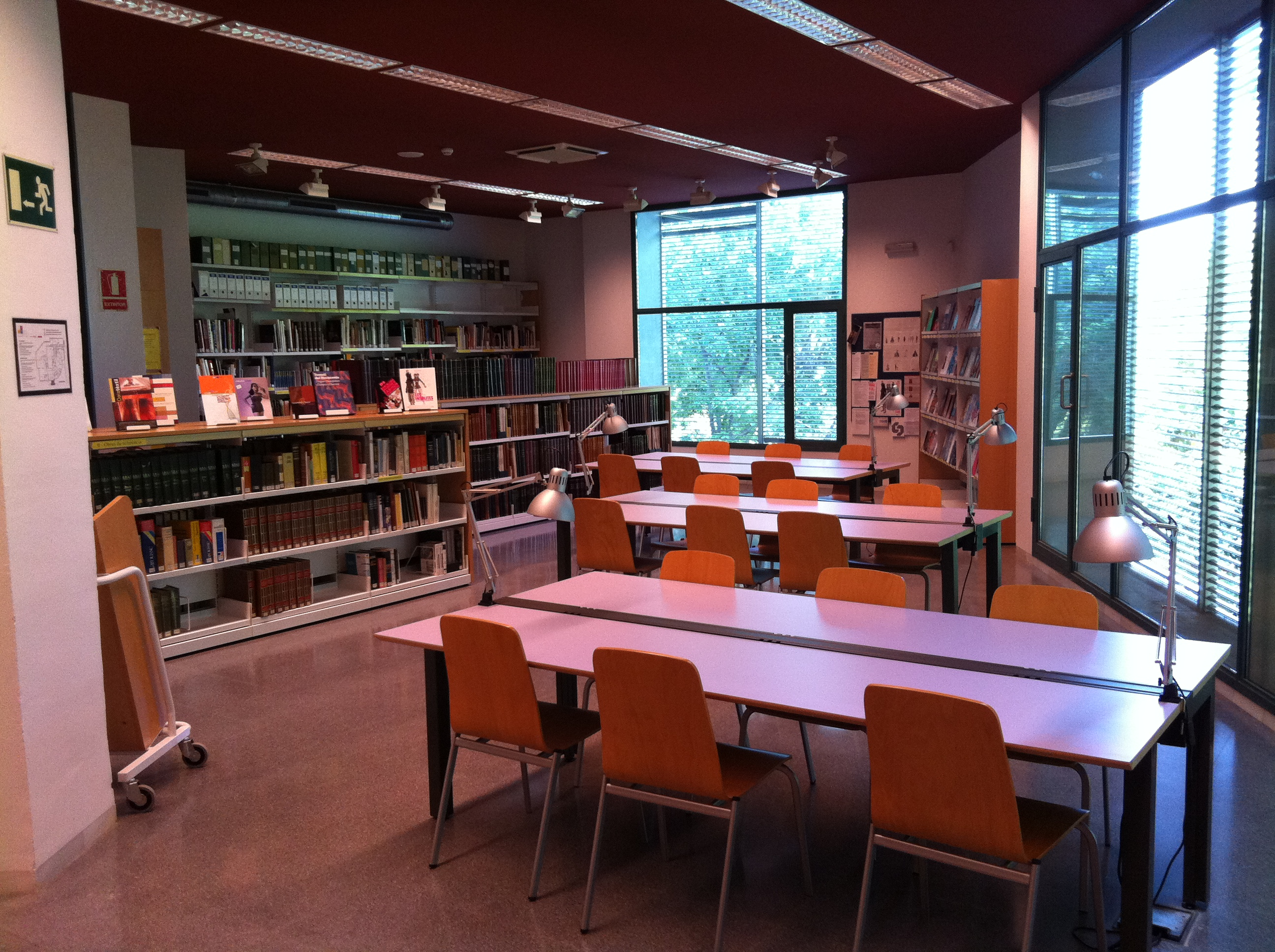 Documentation Center and Textile Museum of Terrassa